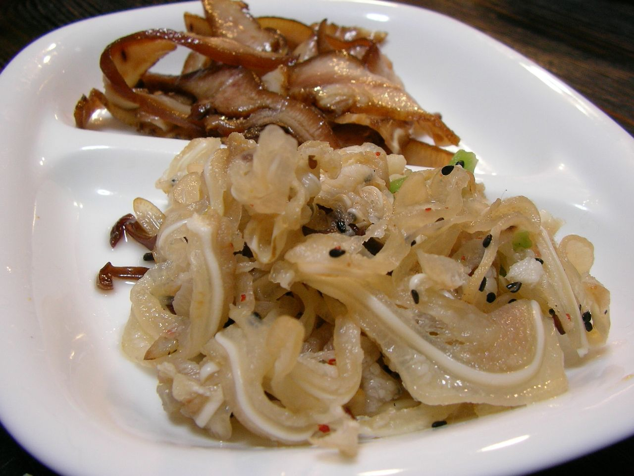 Mimiga and Chiraga ミミガーとチラガー (skin of pig's ear) and Chiraga (skin of pig's face)